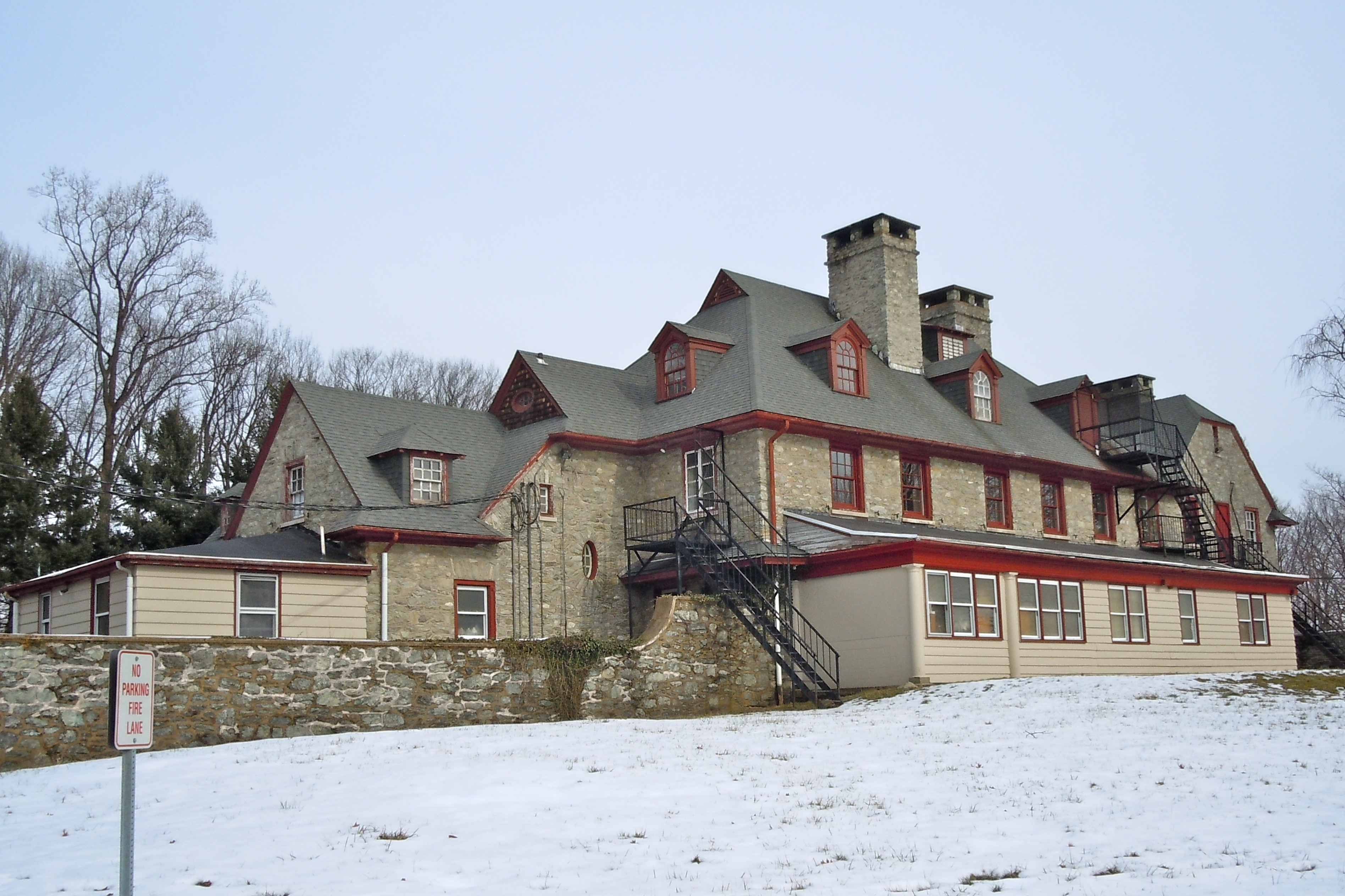 Benjamin Rush House on the NRHP since August 2, 1984, on Boot Road, near Kirkland Road, in West Whiteland Township, Chester County, Pennsylvania, north of West Chester. Built in 1908 for an insurance company president named Benjamin Rush, not for the signer of the Declaration of Independence. The architect was George Bispham Page, who had apprenticed in the firm of Cope & Stewardson, and in 1912 partnered with Emlyn Stewardson to form the firm of Stewardson & Page. Datestone with 1908 - BMR on the front (this is the back). Now part of a complex for handicapped education.